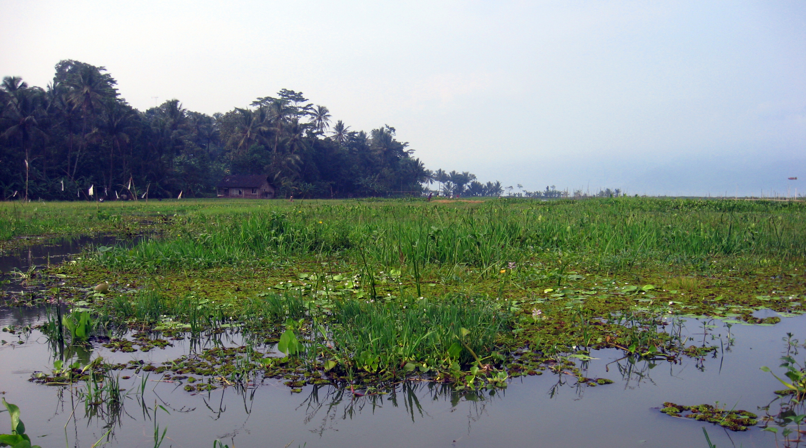 Numerous varieties of water plants in Rawa Pening, Central Java